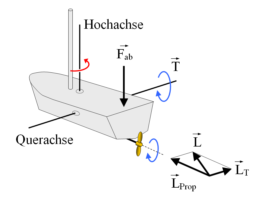 Propeller as a gyroscope with clockwise rotation